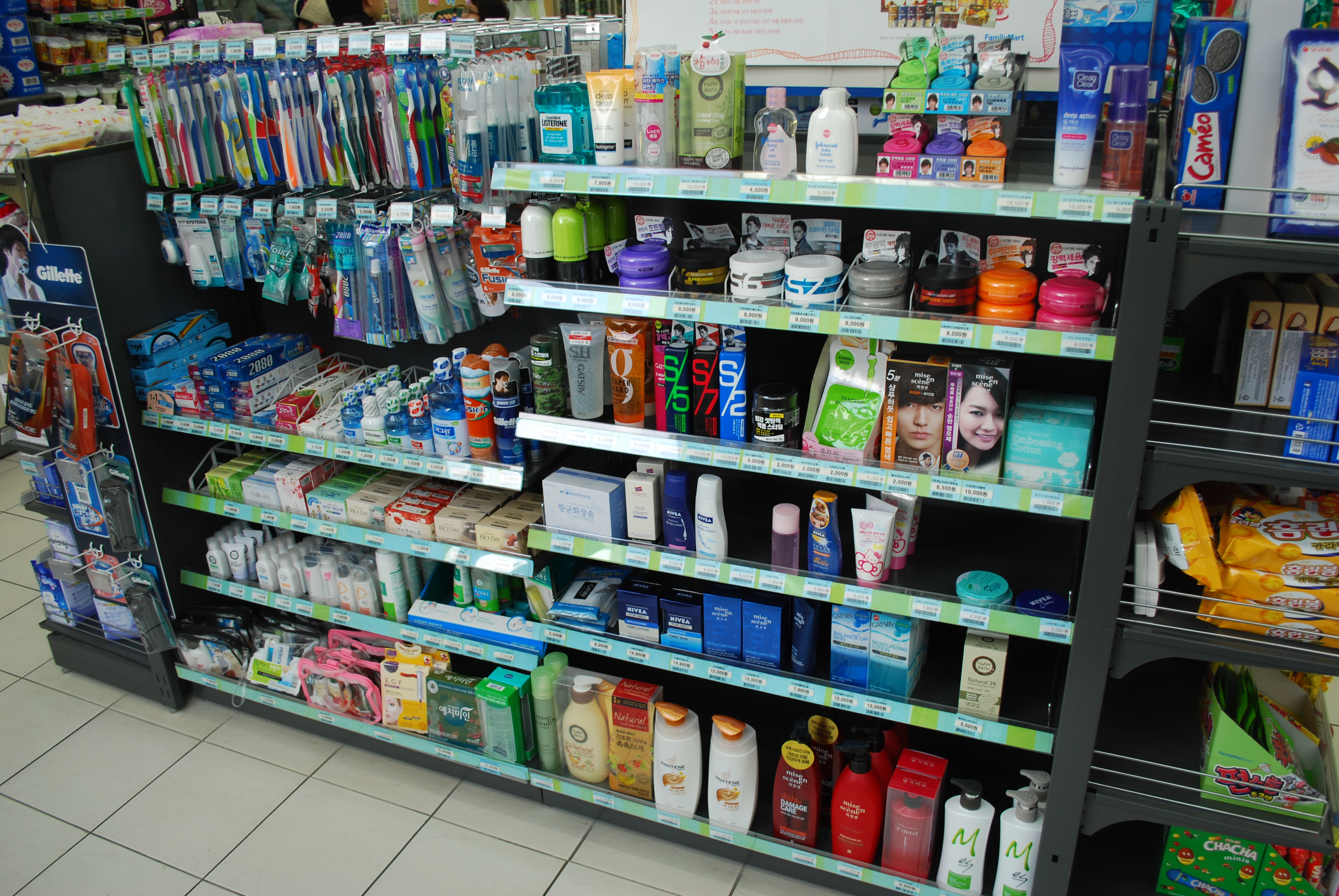 The inner view of FamilyMart sunc^n.eco(suncheon eco) shop, Which exists in Suncheon, South Korea.